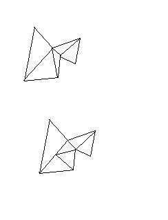 Created by Jonathan Høstgaard-Brene in Microsoft Paint